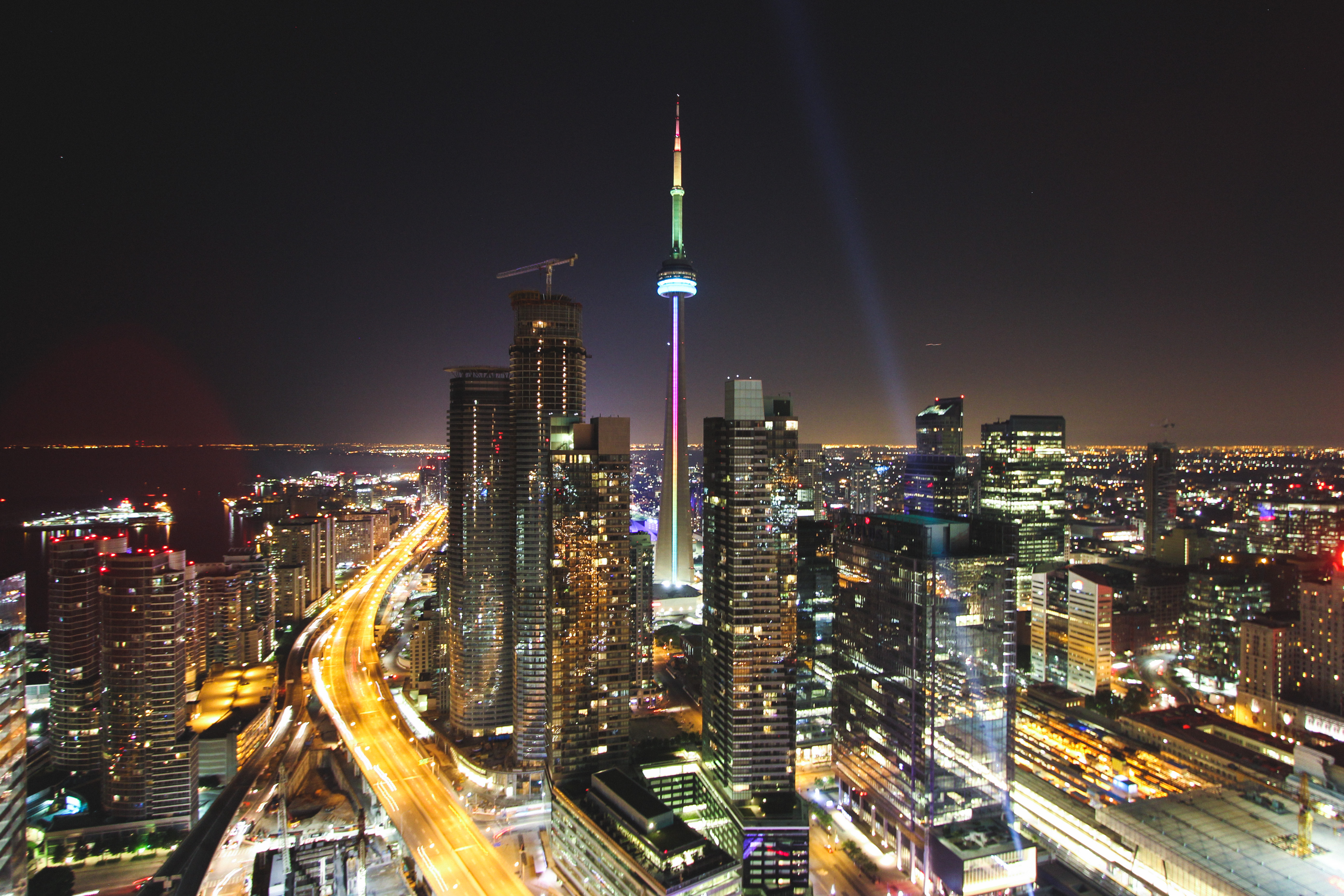 World Pride